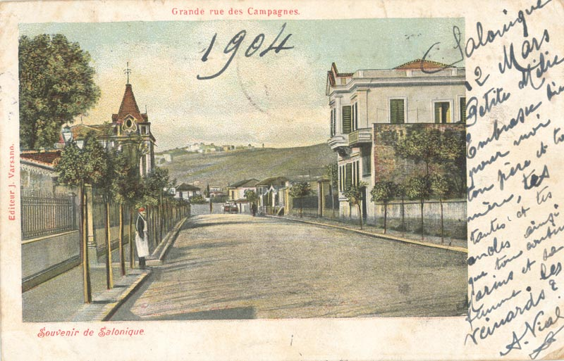 The area of Pirgon in Thessaloniki, 1904. Vue from str. "Ekzohon" (today "Vasilisi Olga").